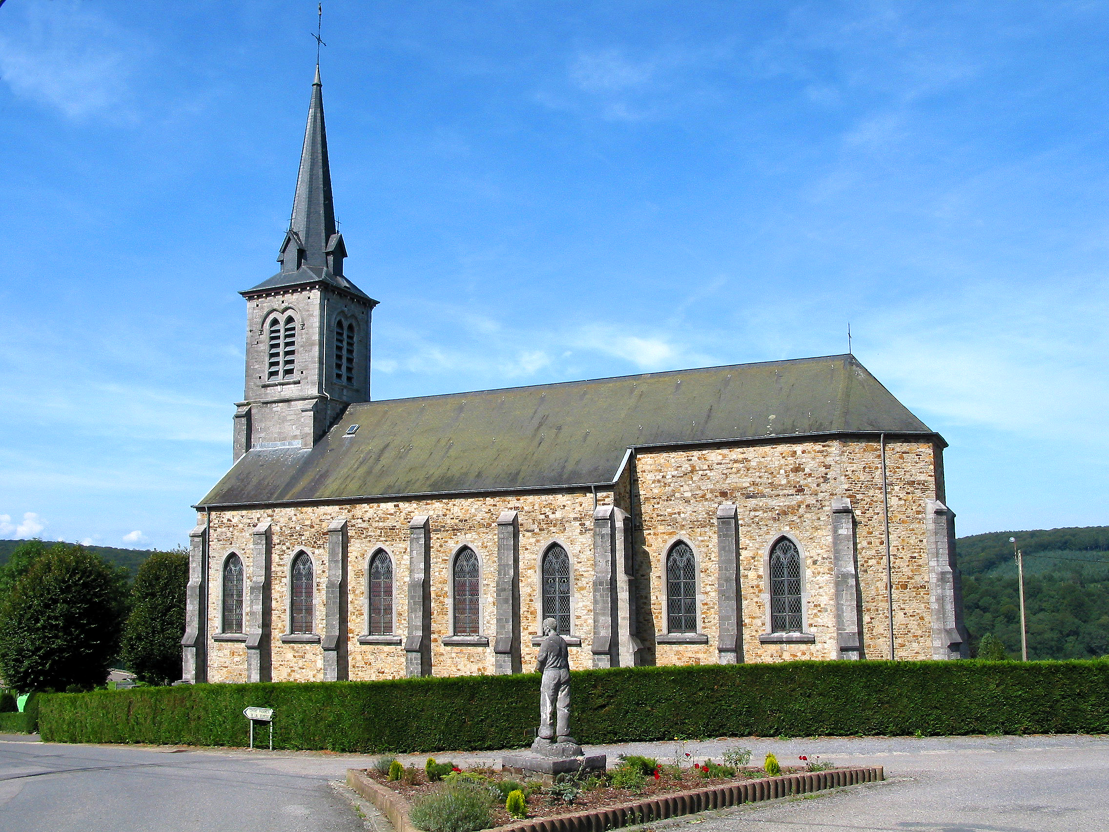 Mirwart (Belgium): Saint Roch's church (1869–1870).